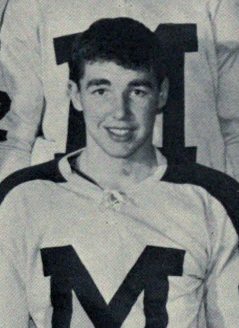 Bill MacMillan, circa 1961